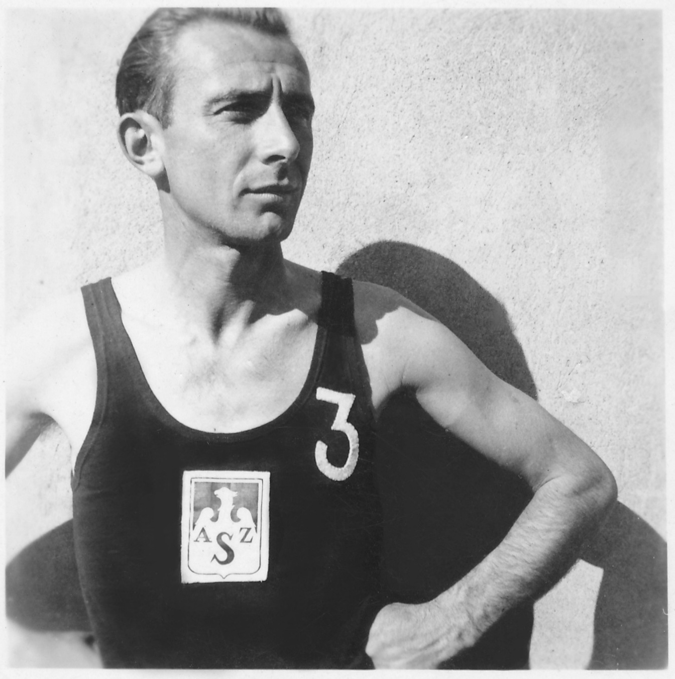 Wiesław Witecki playing for Academic Sports Association of Nicolaus Copernicus University in Toruń